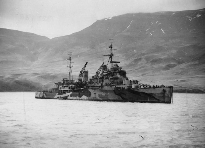 The British Fiji class cruiser HMS TRINIDAD stationary in Hvalfjörður, Iceland.